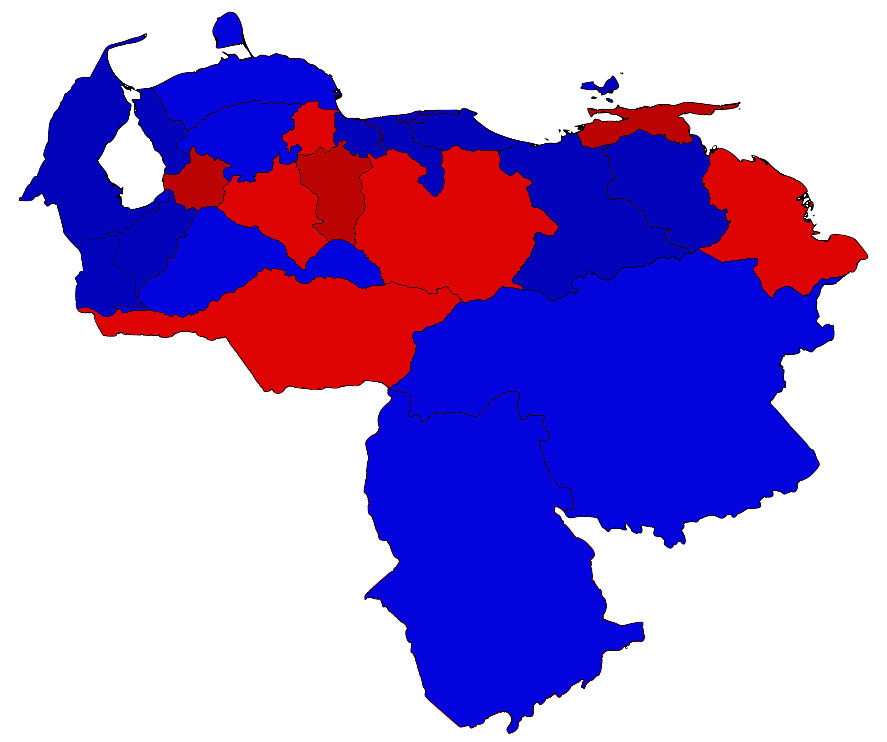 Election results of parlament elections in 2015. For state.